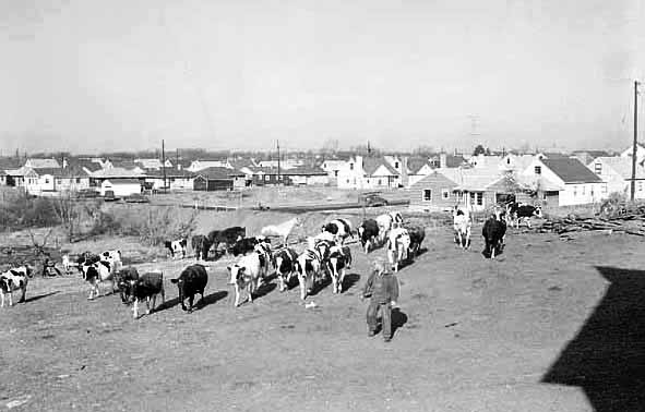 View of housing development near John Tierney farm, Sixty Second Street and Penn Avenue South, Richfield, Minnesota.